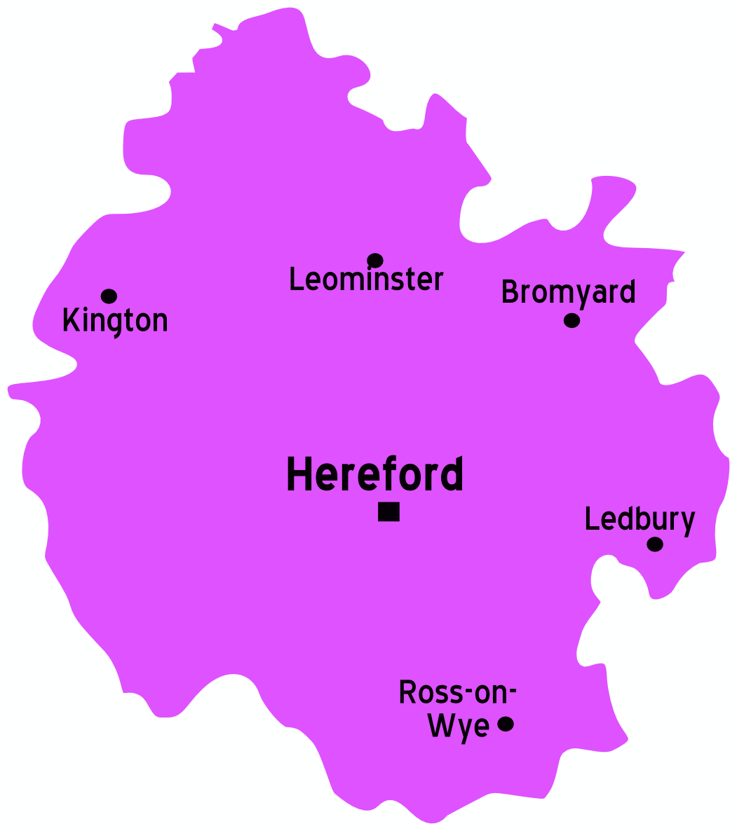 Map of Herfordshire Source: :Image:UK map.svg map: England Map of: England